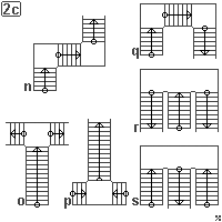 Changed ('fixed') dark grey background to white (RGB=#FFFFFF); changed indexed color modeto greyscale mode; modifications by user martix